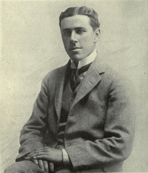 Tennis player Norman E. Brookes